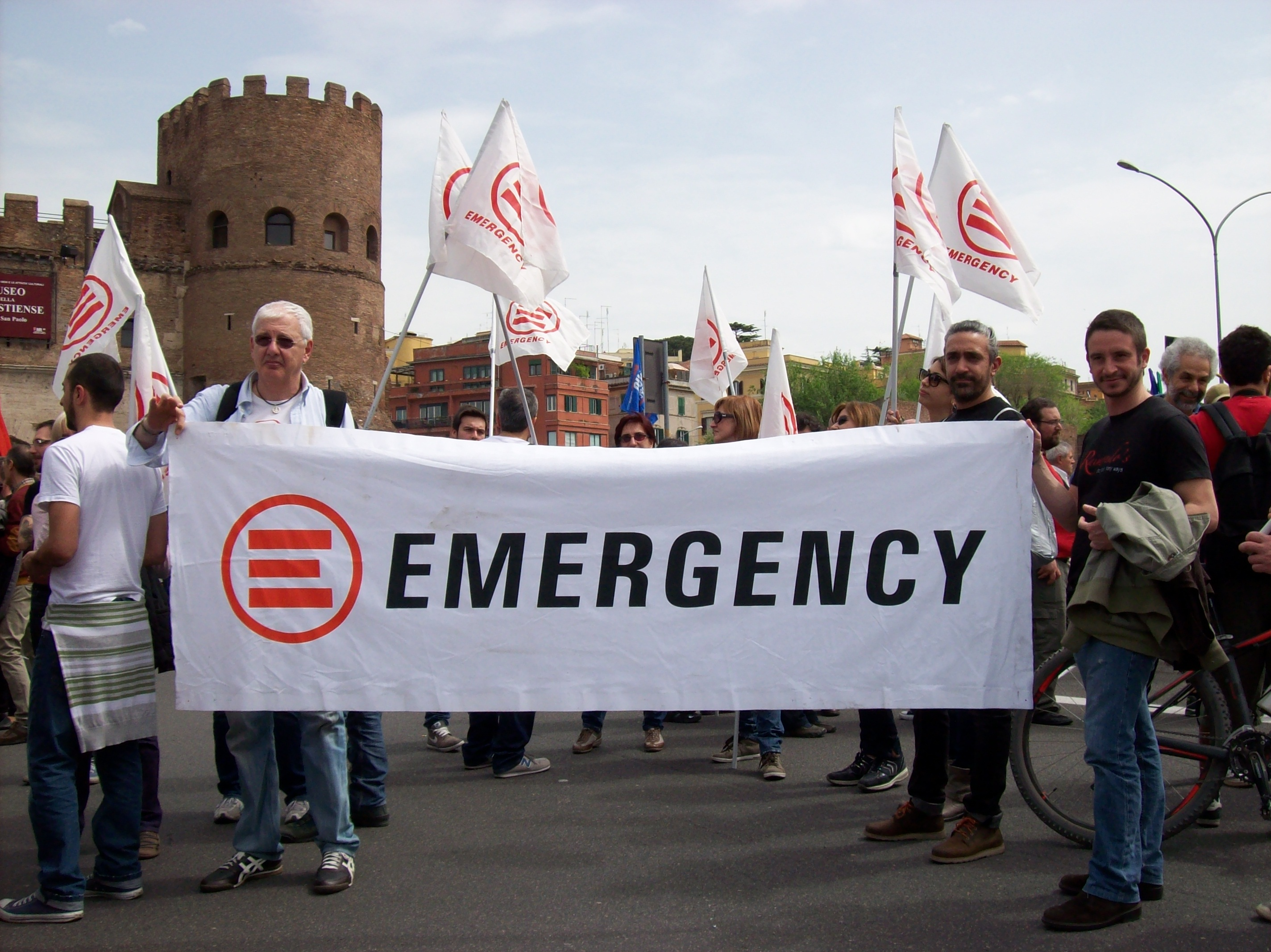 People of the NGO Emergency - humanitarian health organisation - demonstrating at the 2013 Day of Liberation in Rome